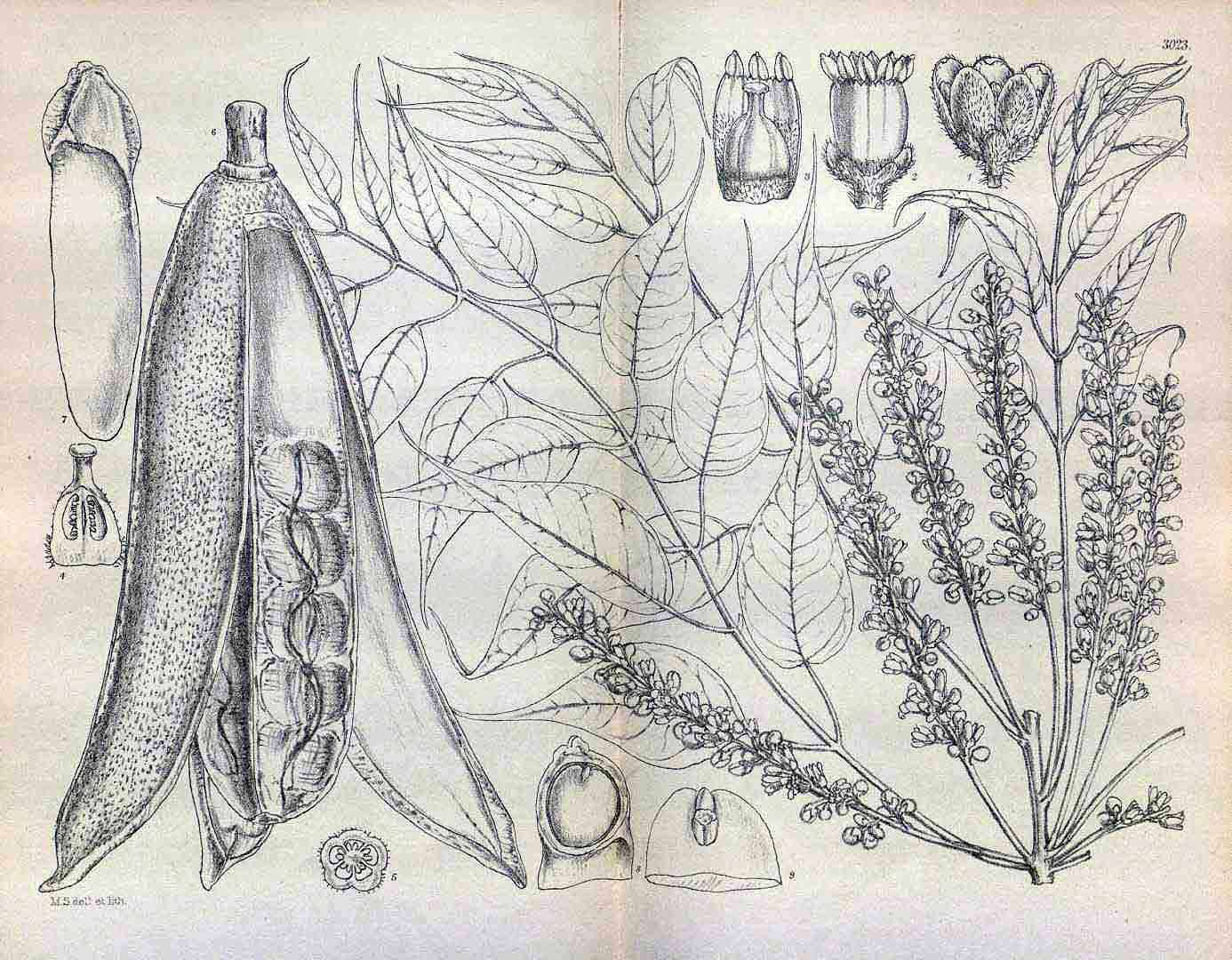 Hooker’s Icones Plantarum, vol. 31: t. 3023 (1915)